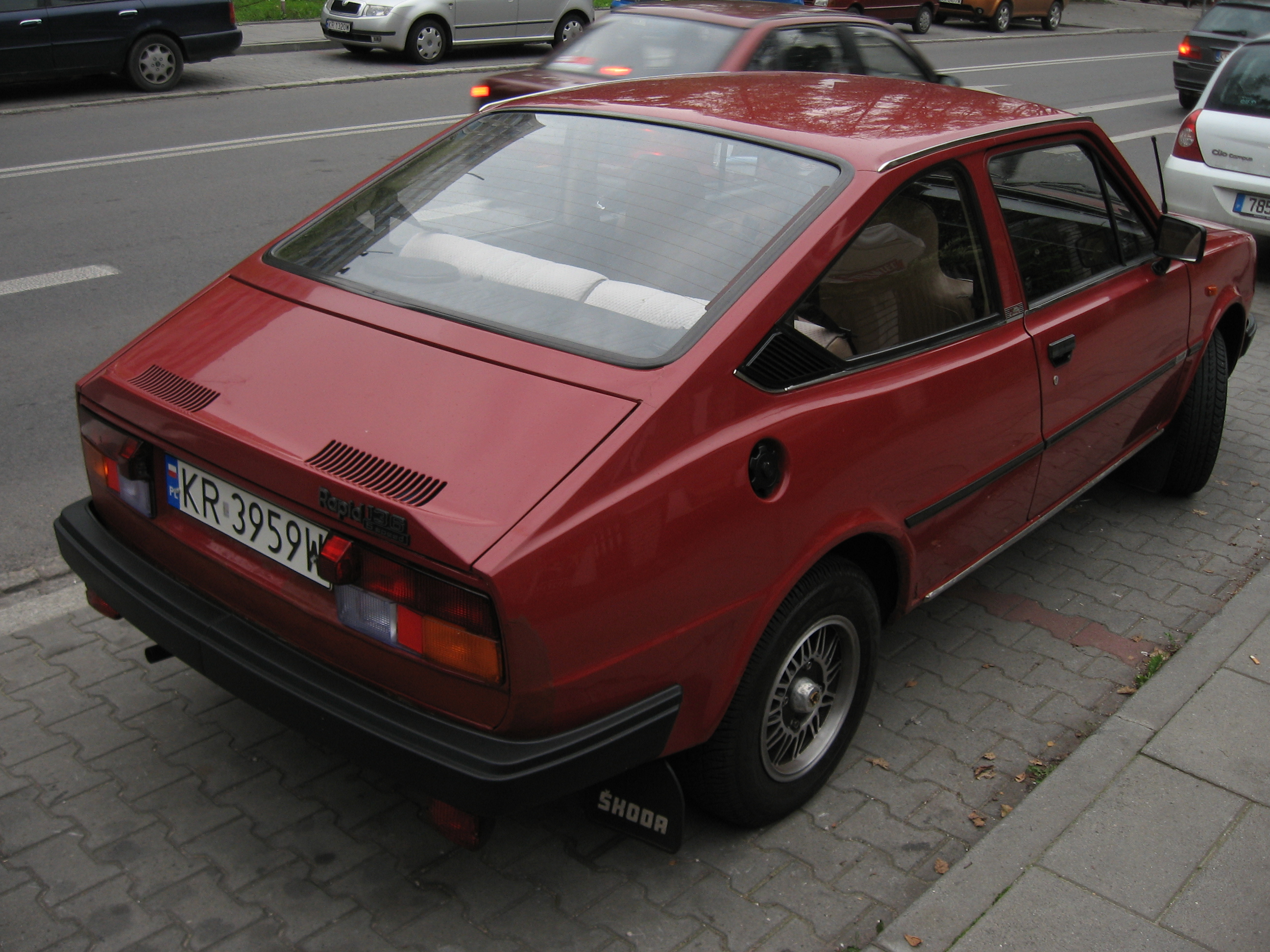 Škoda Rapid 136 5 speed in Kraków.